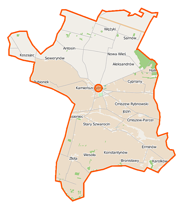 Map of Gmina Rybno, Poland This map of Rybno (gmina w województwie mazowieckim) was created from OpenStreetMap project data, collected by the community. This map may be incomplete, and may contain errors. Don't rely solely on it for navigation. Border coordinates52.294420.0089←↕→20.182652.1725